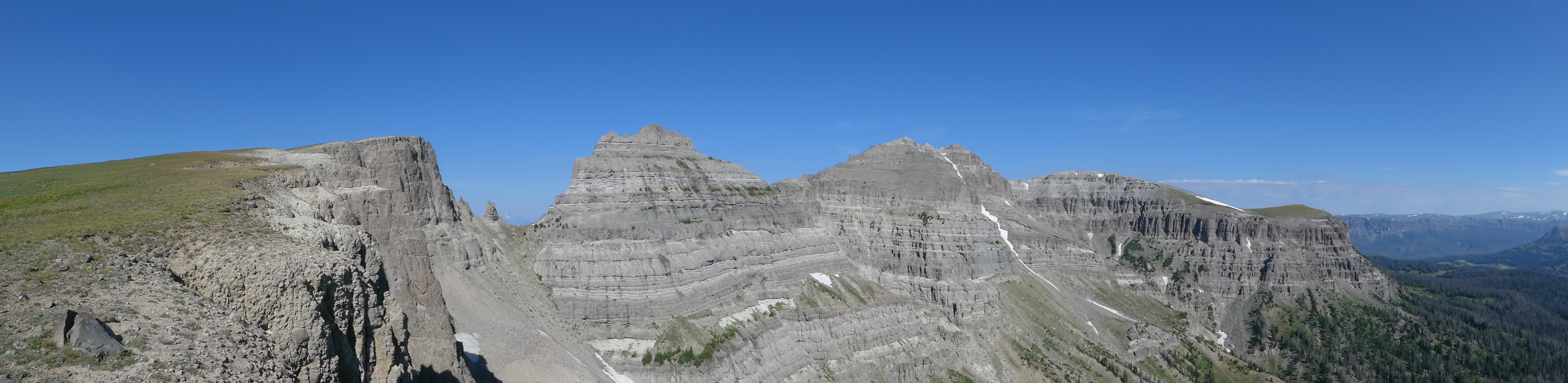 Breccia Peak (left) and Buffalo Fork Peak (right) from east ridge of Breccia Peak